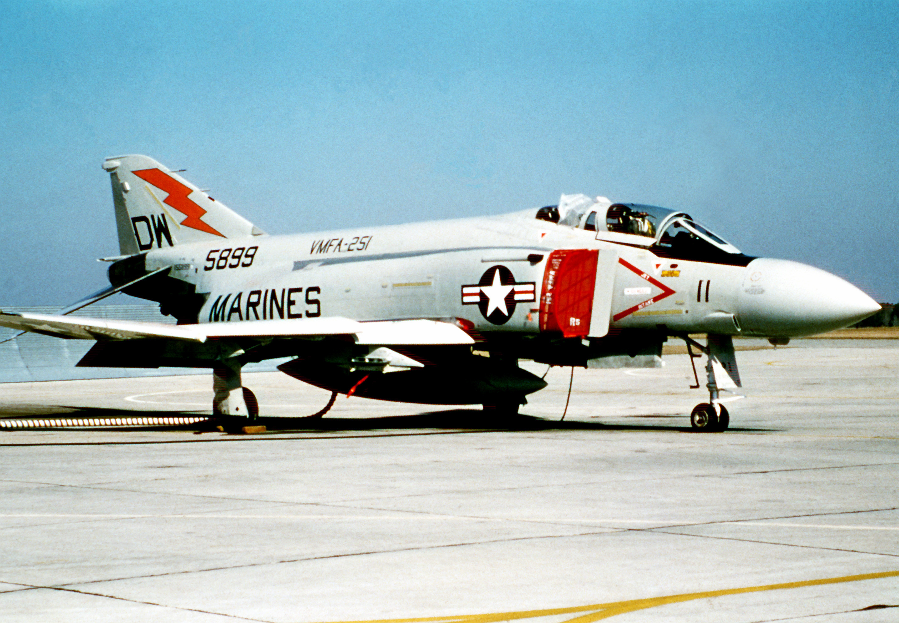 A U.S. Marine Corps McDonnell Douglas F-4S Phantom II (BuNo 155899) from Marine fighter-bomber squadron VMFA-251 Thunderbolts at Marine Corps Air Station Cherry Point, North Carolina (USA), in 1979.